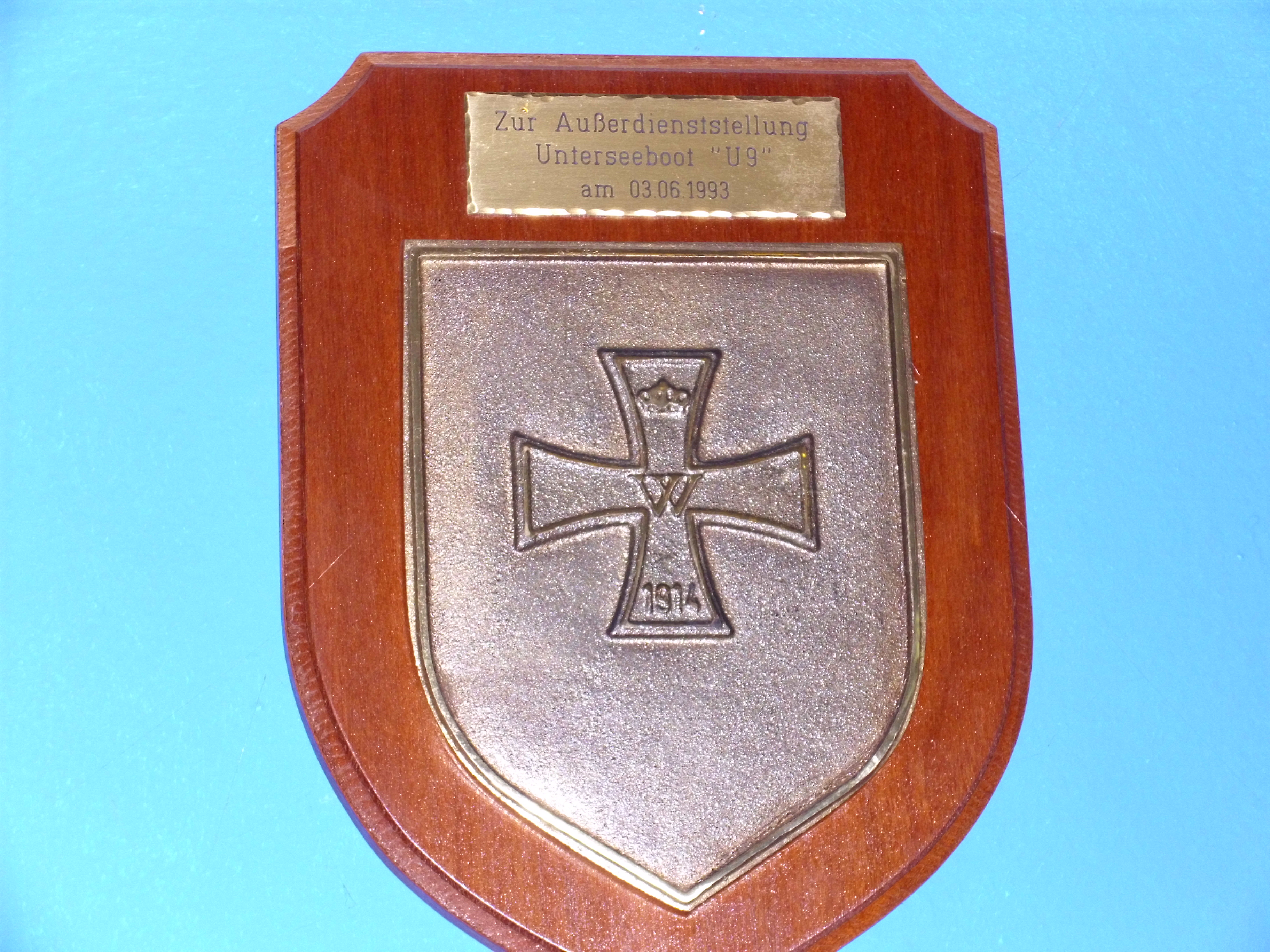 Internal coat of arms of the Bundeswehr (Armed Forces of the Federal Republic of Germany). → Remarks on naming and categorization scheme